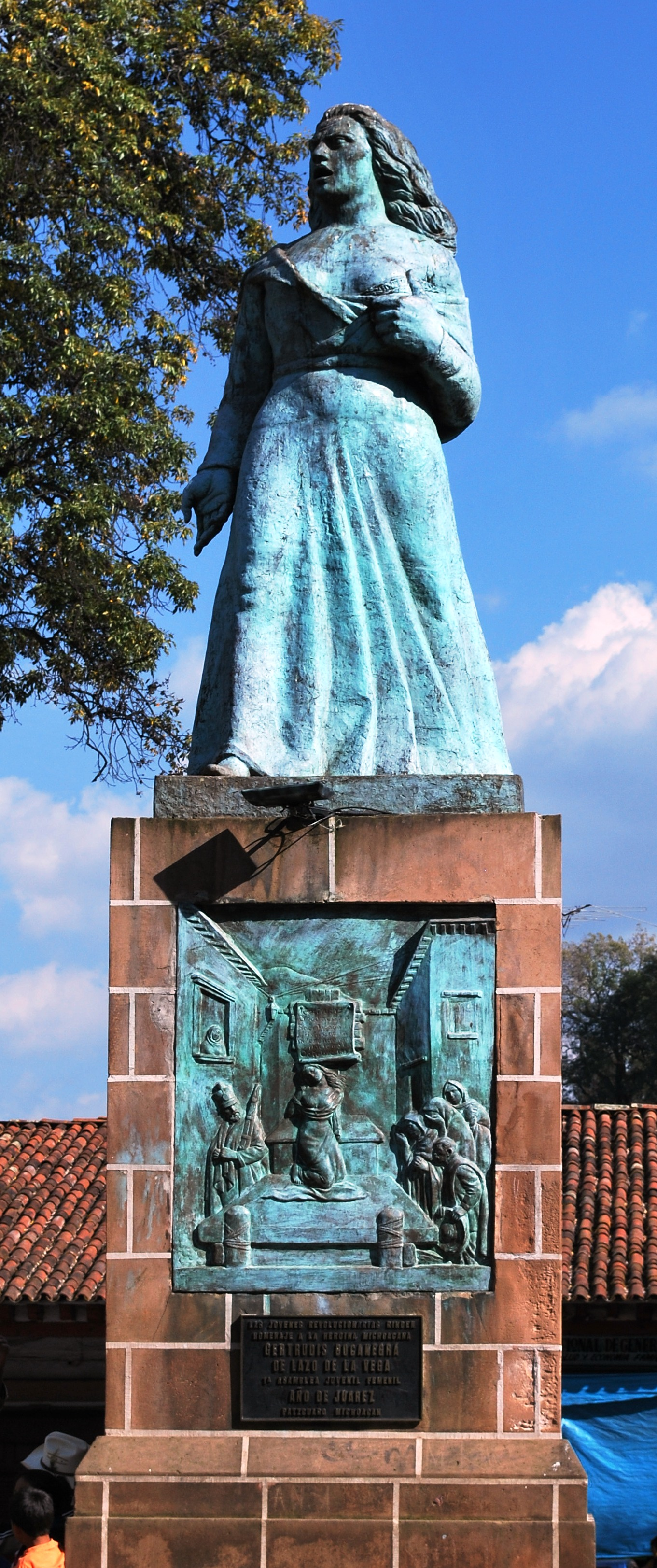 Monument to Gertrude Bocanegra in the Gertrude Bocanegra Plaza in Pátzcuaro, Michoacan